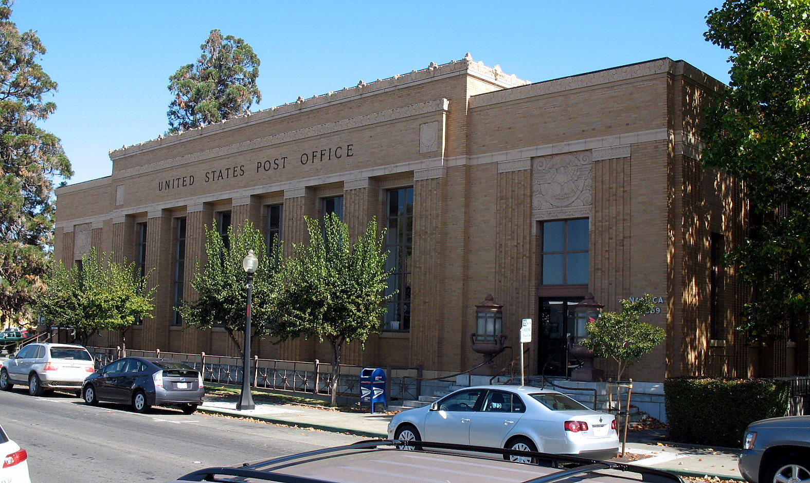 National Register of Historic Places listings in Napa County, California. US Post Office-Napa Franklin Station, 1352 2nd St., Napa, California